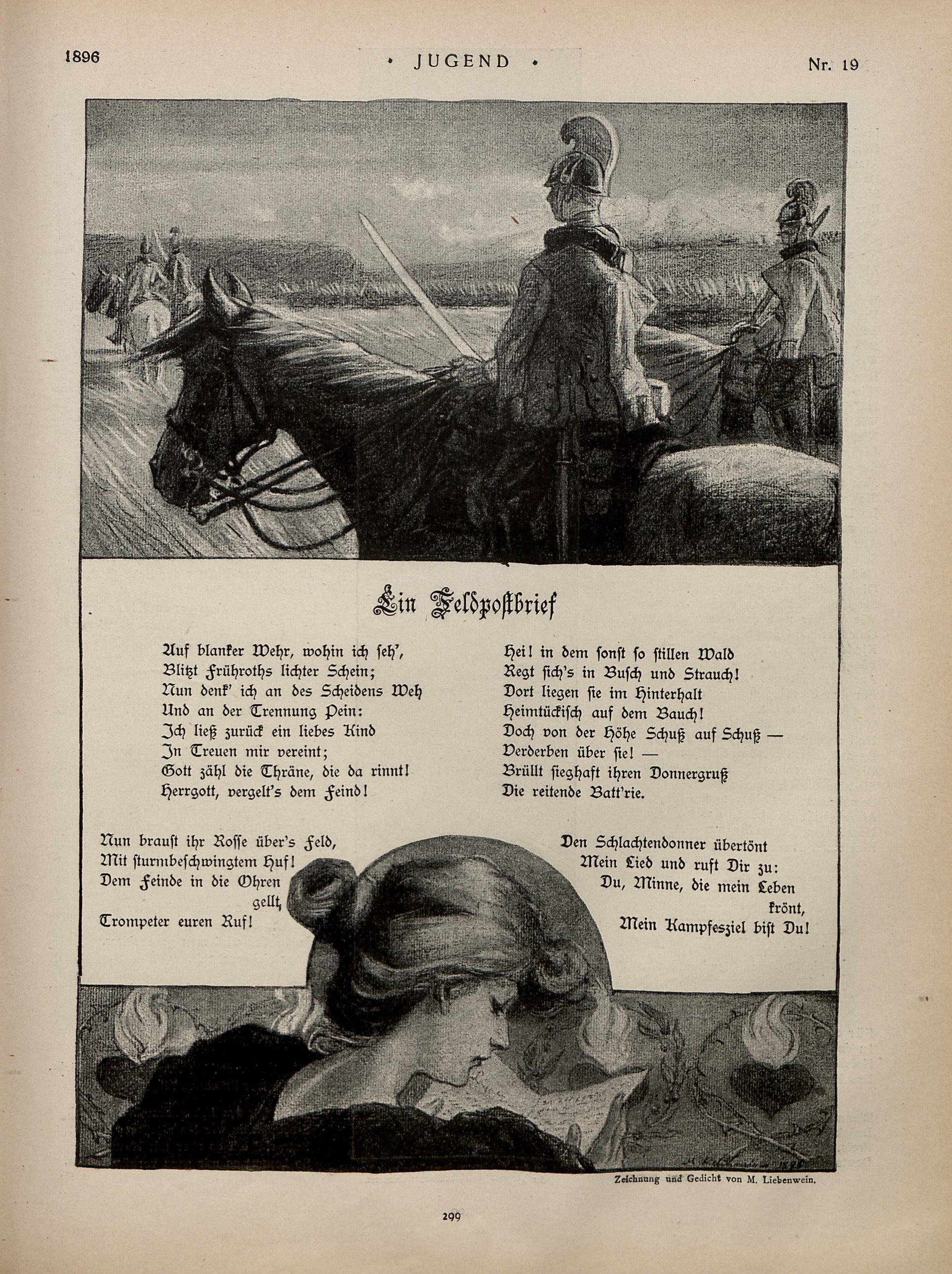 Ein Feldpostbrief, poem and illustrations, from Jugend 1896 no. 19 p. 299.